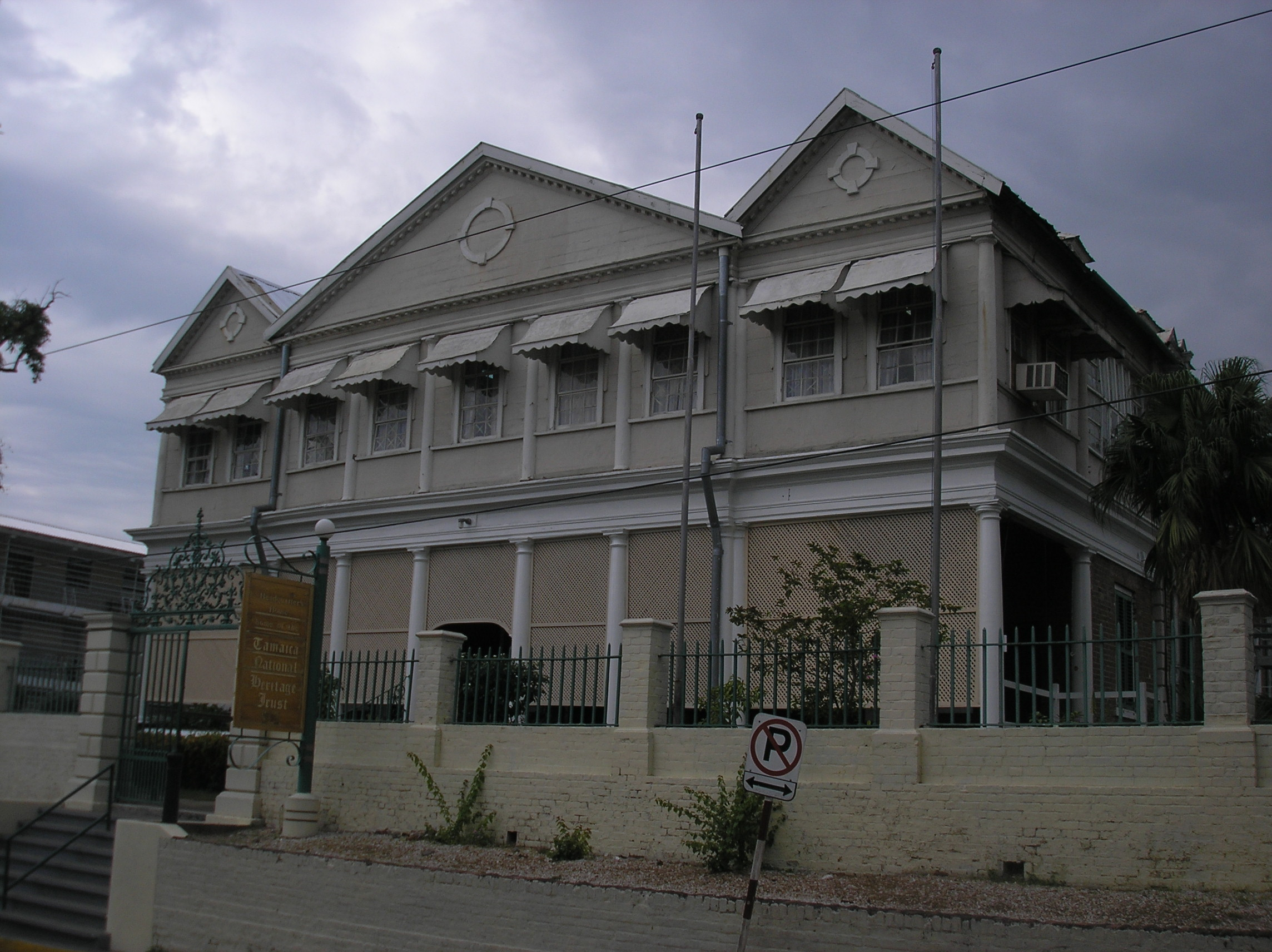 photo of Hibbert House, headquarters of the Jamaica National Heritage Trust, courtesy of Dan Livesay